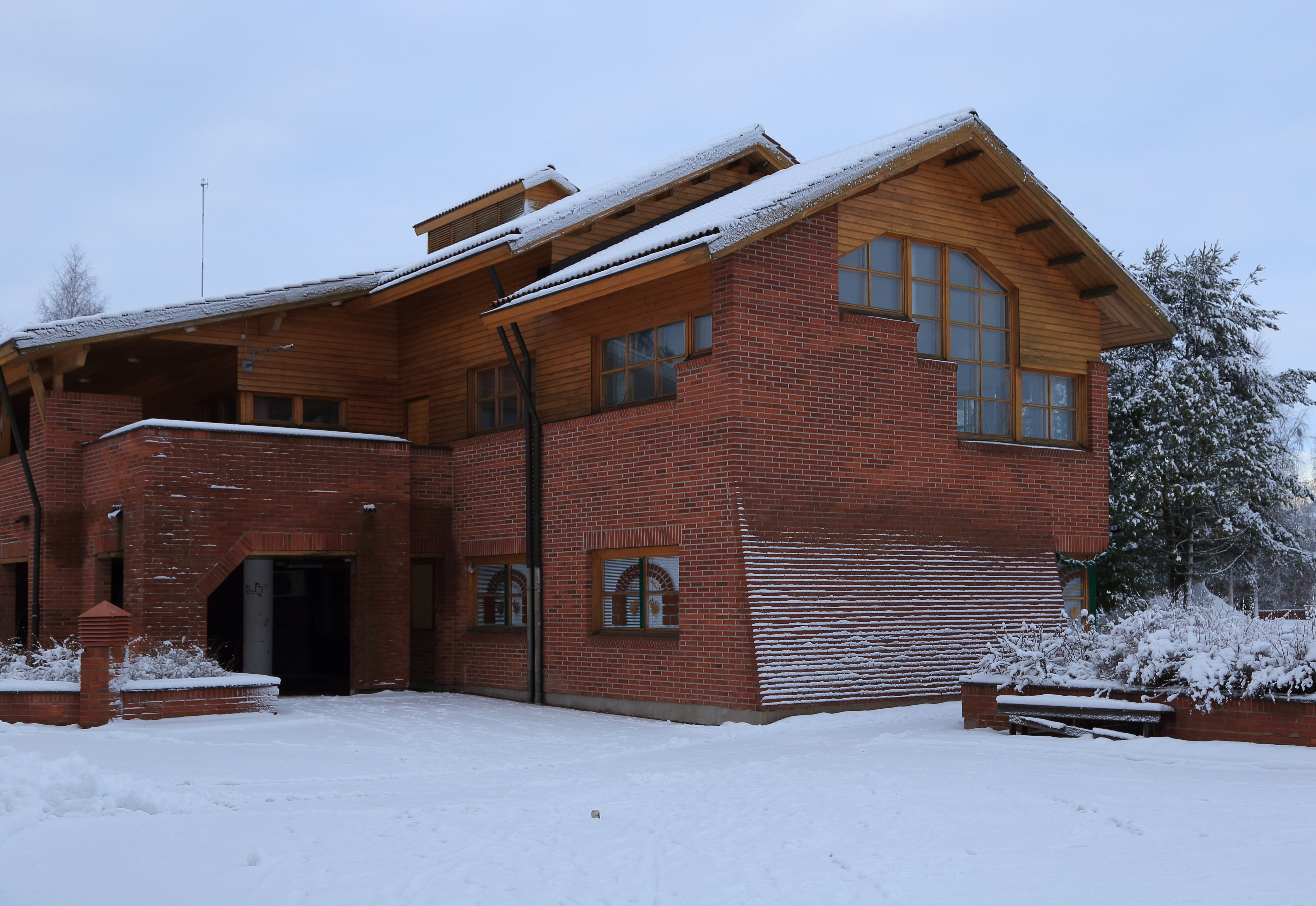 The former town hall of the former Oulunsalo municipality in Oulu, Finland.